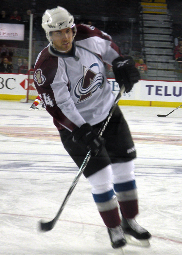 Colorado Avalanche forward David Jones prior to a National Hockey League game against the Calgary Flames in Calgary.